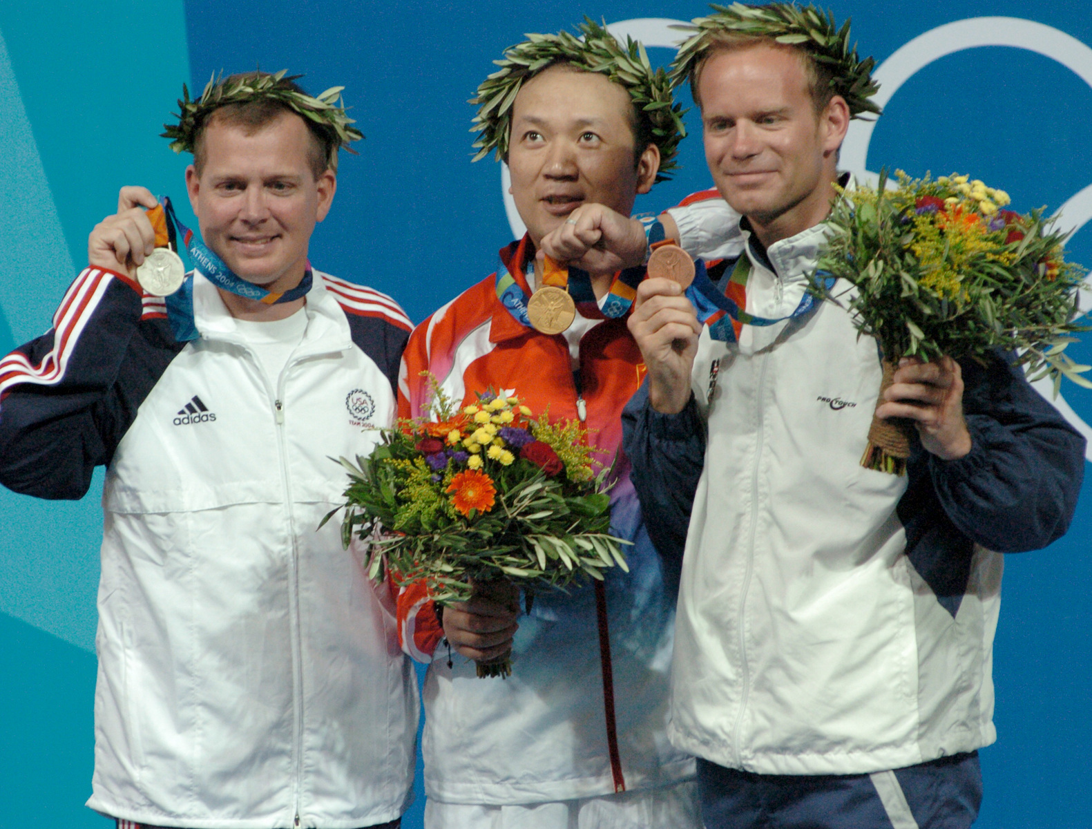 U.S. silver medalist Army Maj. Michael Anti, left, poses with China gold medalist Zhanbo Jia, center, and Austrian bronze medalist Christian Planer Aug. 22. The three were winners in the Summer Olympic Games men's 50-meter three-position rifle shooting. Army photo.